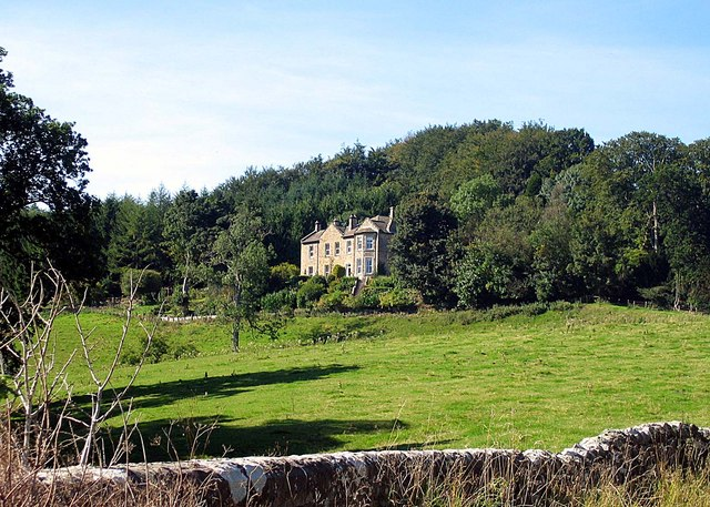 Skelton Hall